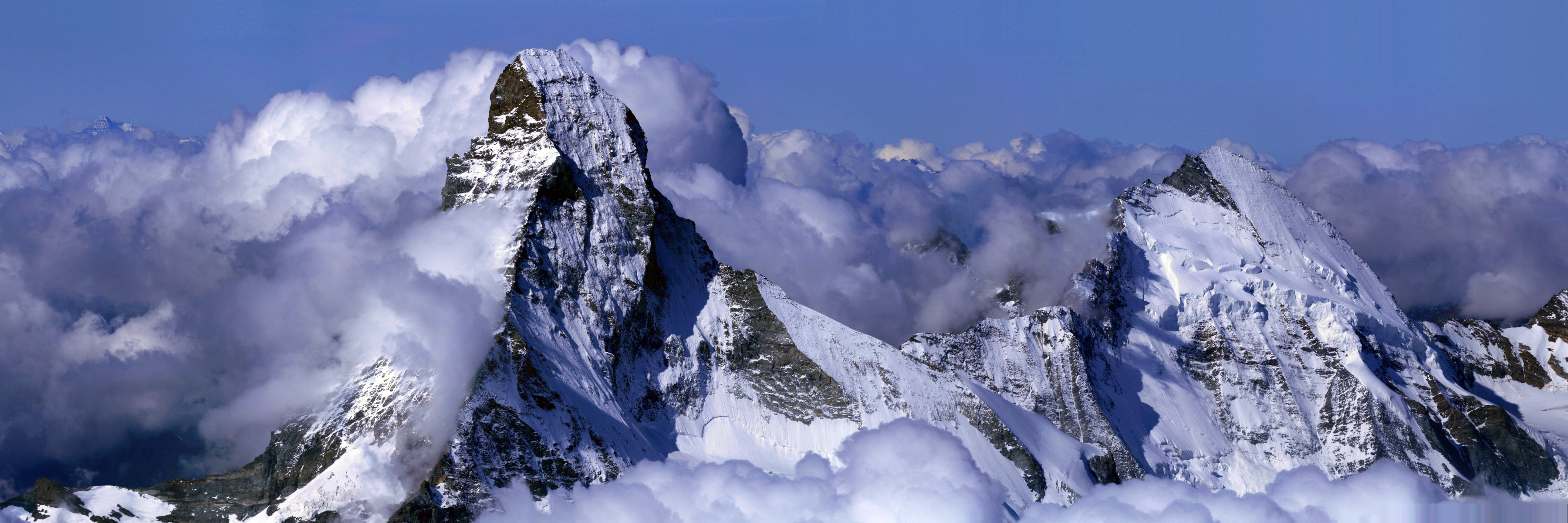 Matterhorn and Dent d'Hérens from the summit of the Dom (above Randa, Valais)